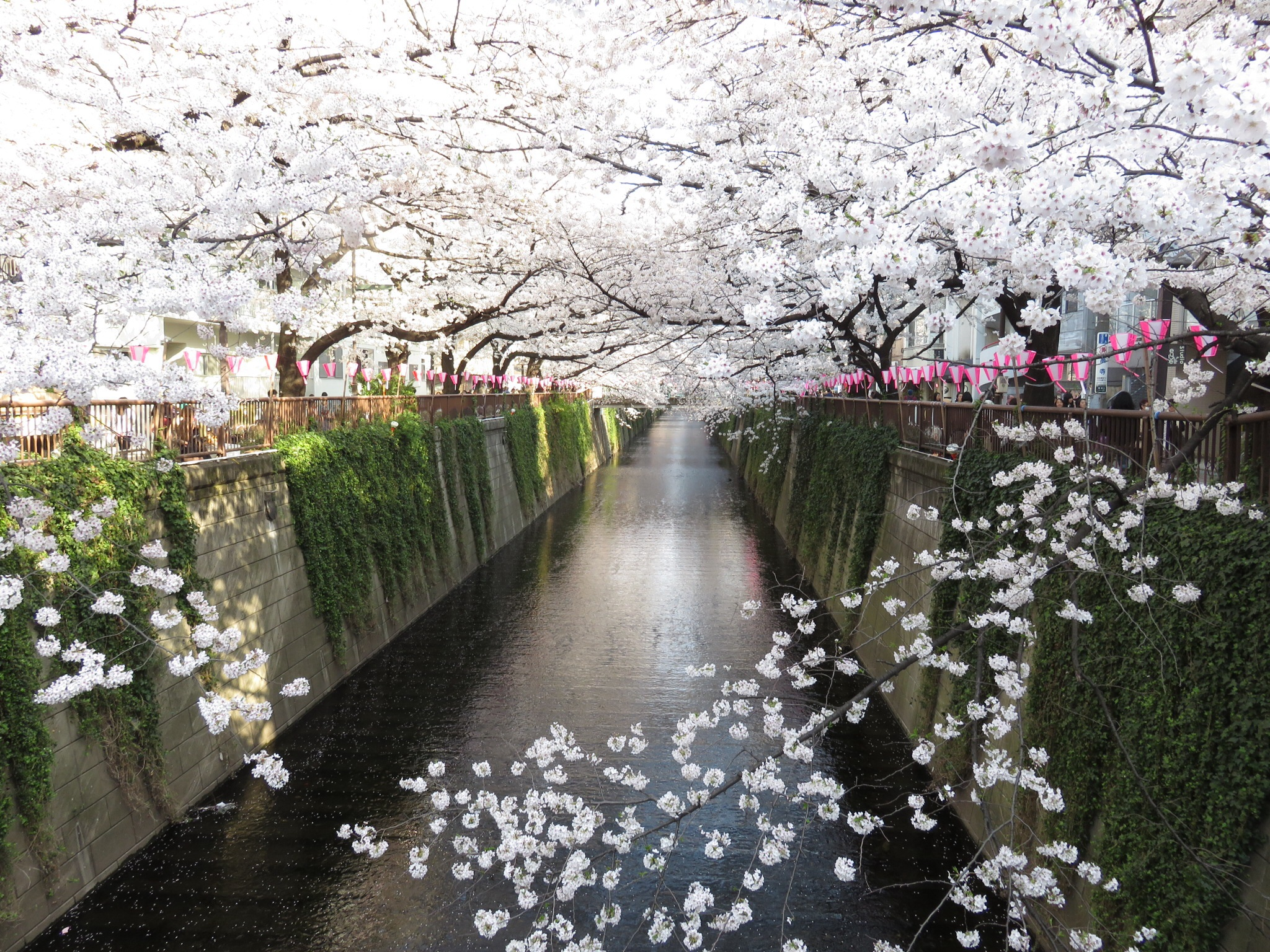 Meguro River, Spring 2014